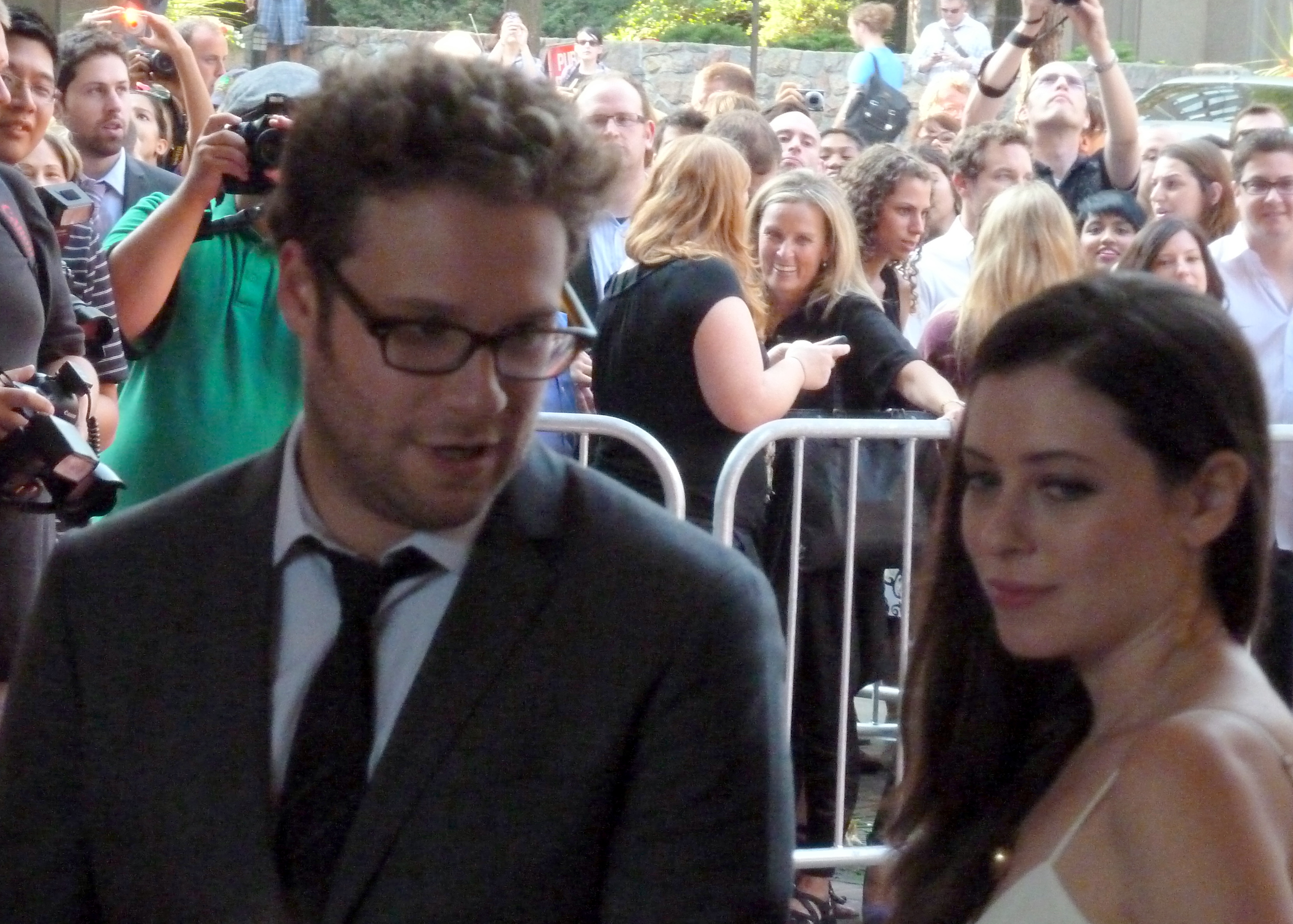 Seth Rogan and wife Lauren Miller at the world premiere of 50/50, 2011 Toronto Film Festival